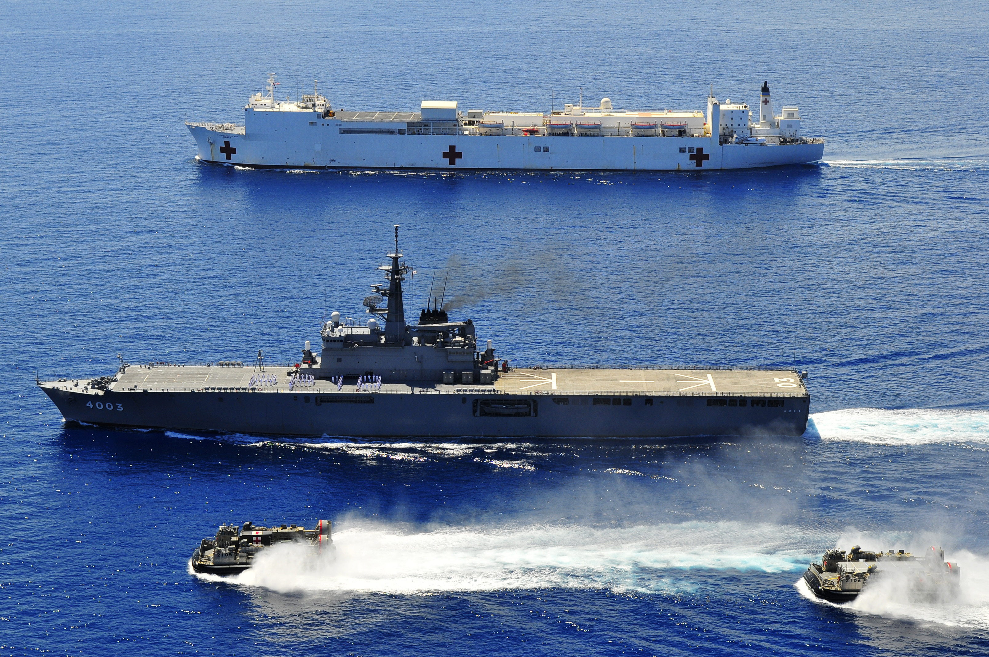 The Military Sealift Command hospital ship USNS Mercy (T-AH 19), rear, the Japanese Maritime Self-Defense Force Osumi-Class amphibious assault ship JDS Kunisaki (LST 4003), center, and two Japanese landing craft, air cushion hovercraft steam through the South China Sea during a photo exercise June 14, 2010. Mercy was deployed as part of Pacific Partnership 2010, the fifth in a series of annual U.S. Pacific Fleet humanitarian and civic assistance endeavors to strengthen regional partnerships.